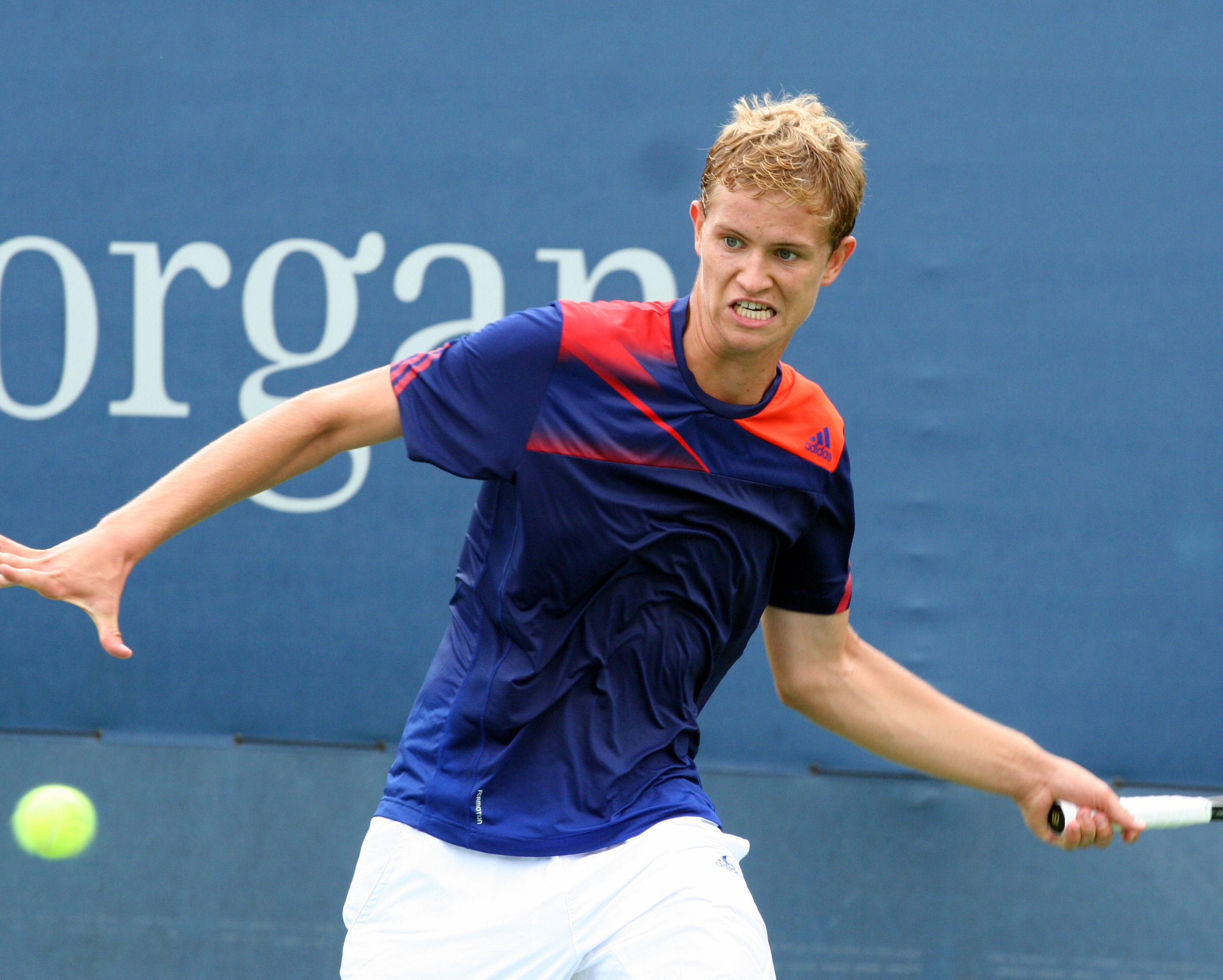 U.S. Open Juniors Tuesday, Sept. 3, 2013